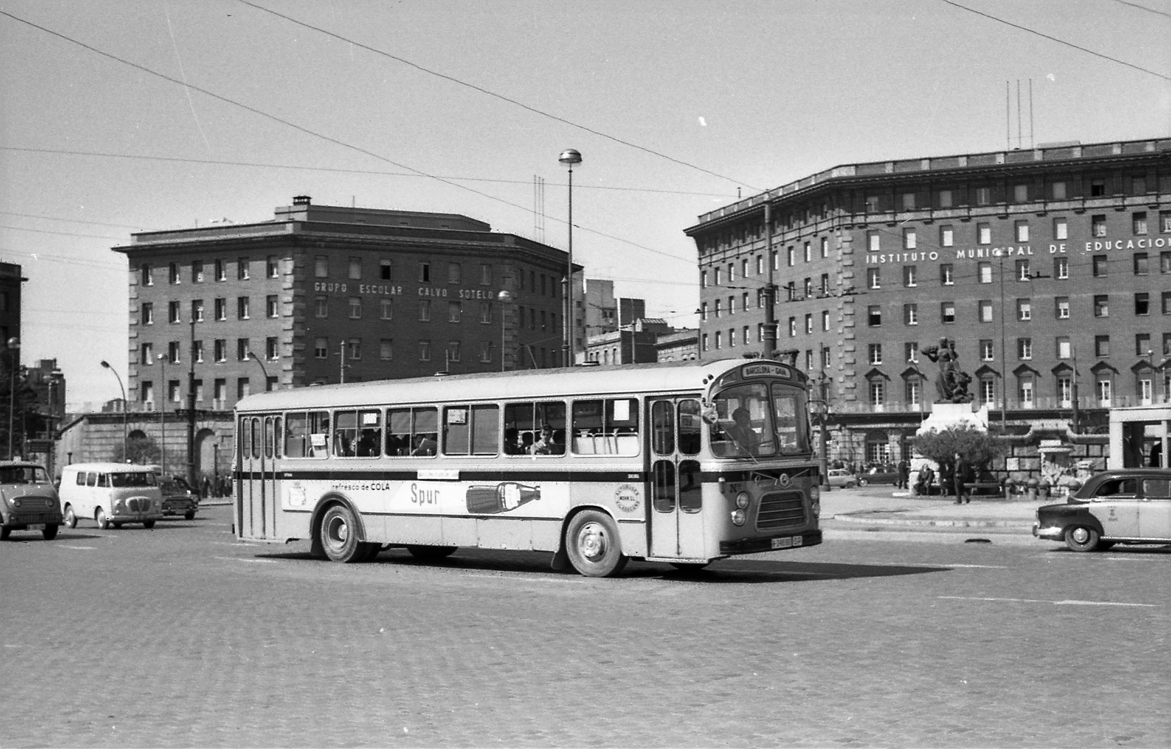 The bus number 36 of the company Mohn S.L., a Pegaso of unknown model and bodywork, in the Plaza de España in Barcelona in the sixties.